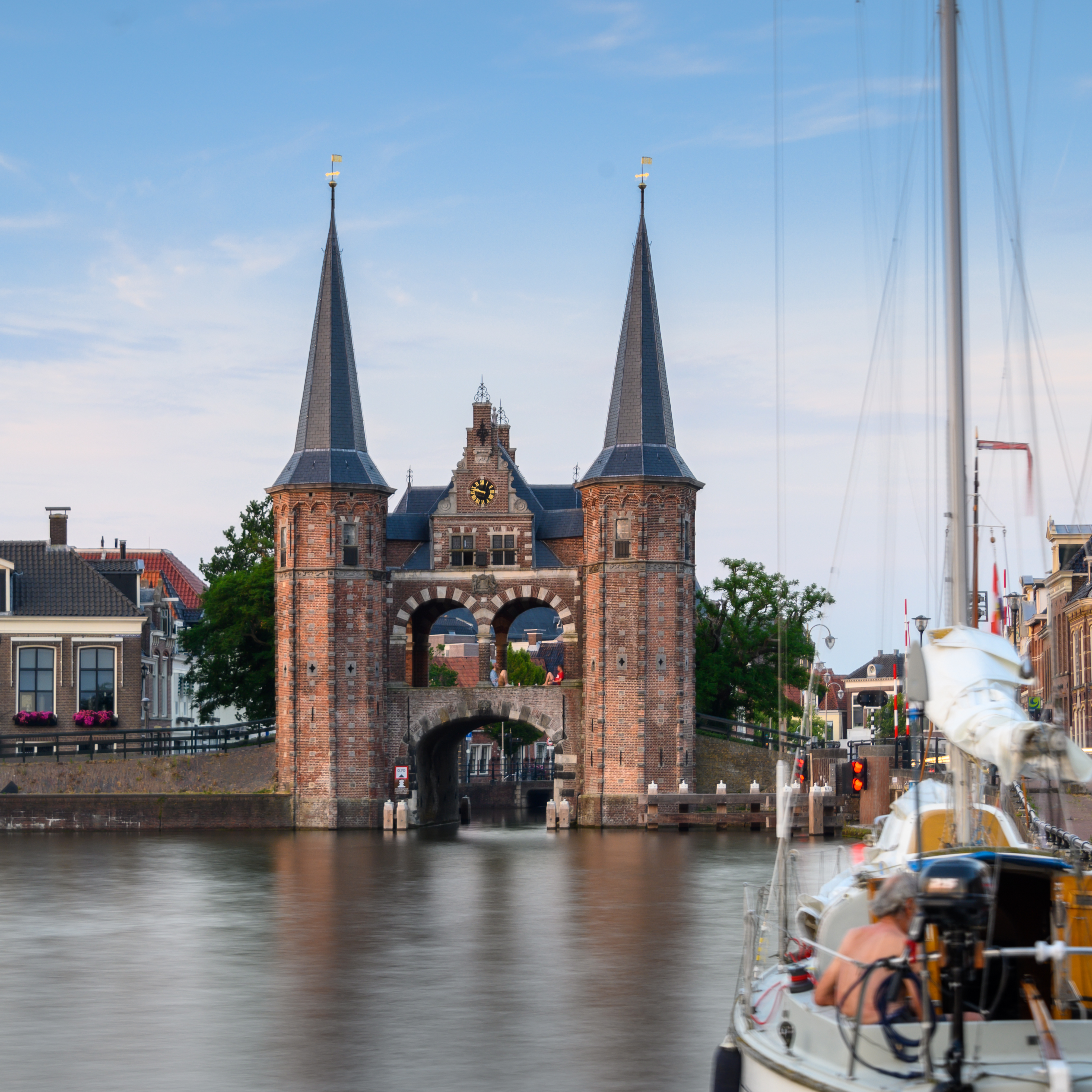 Waterpoort in Sneek, The Netherlands